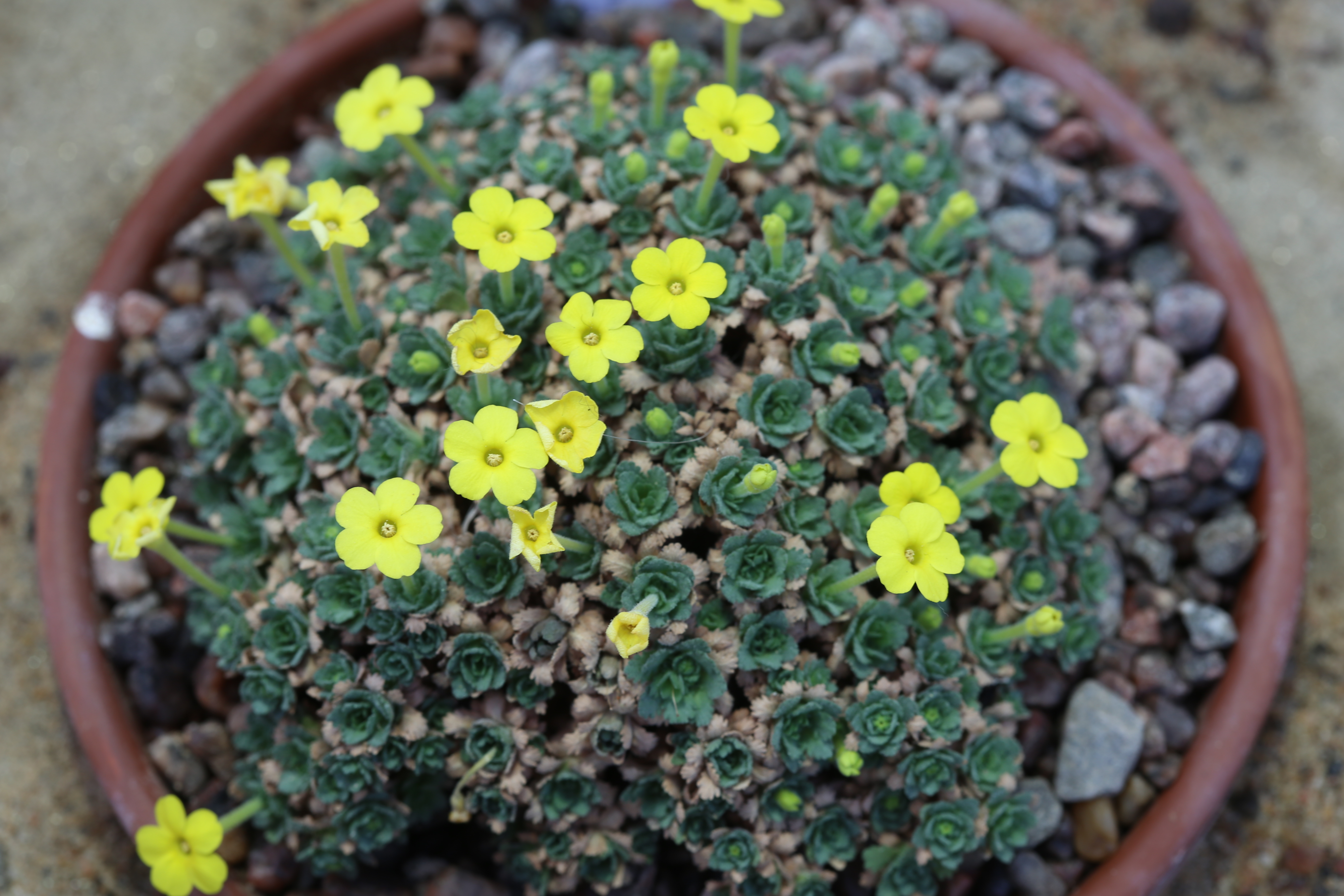 Dionysia gaubae at Gothenburg Botanical Garden 2015. Plant id: 2015-468 p Z -- Tübingen; T4Z 190